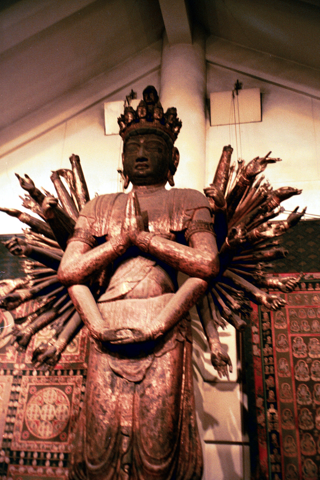 The Senju (Thousand-armed) Kannon, in Toji's Treasure Hall, dates to 877 and is the largest wooden statue in Japan.